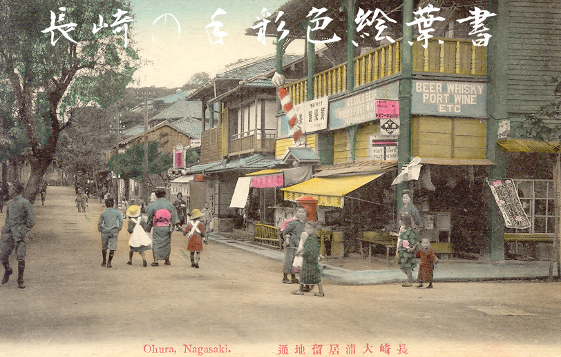 Japanese hand tinted postcard view of the Foreign Settlement Area in Oura, Nagasaki